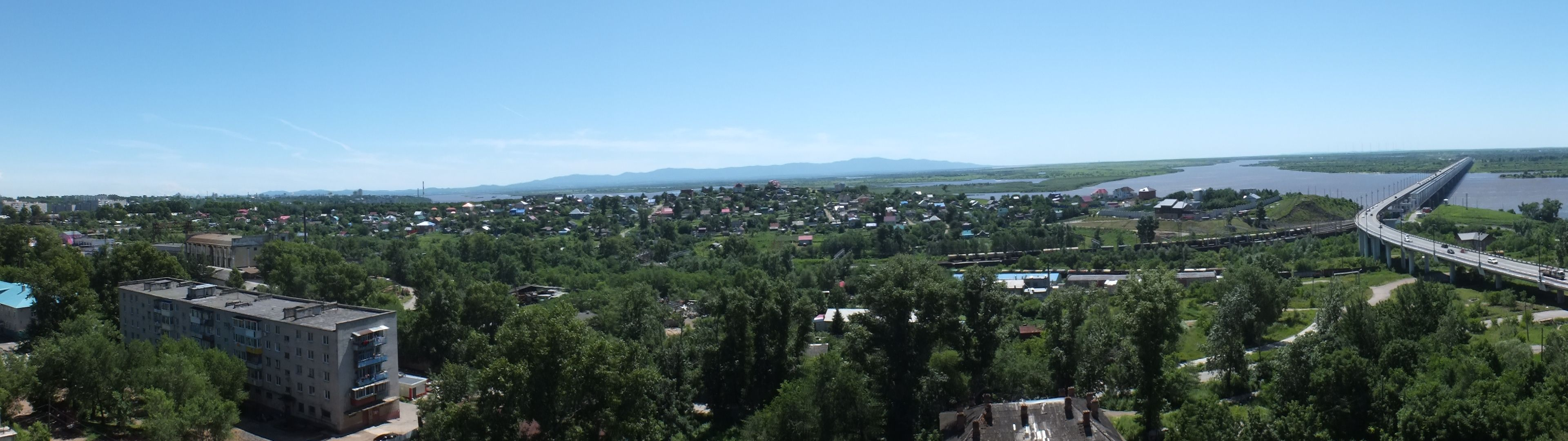 Khabarovsk Bridge